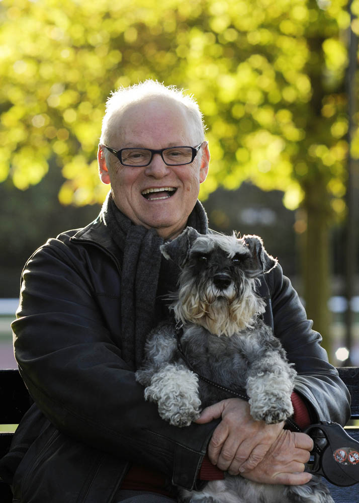 Anthony Linnick and Fritz portraits